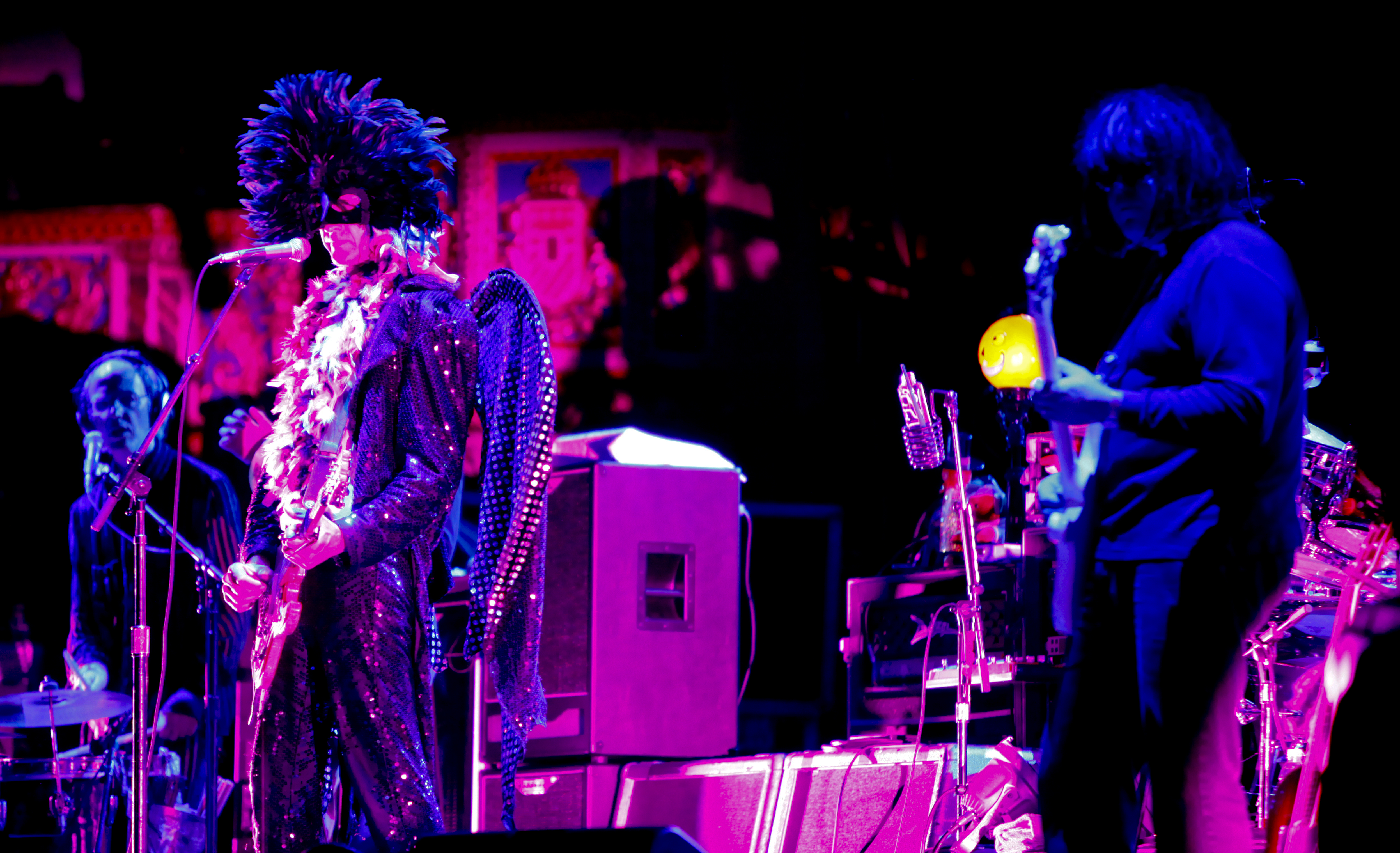 The Frogs Live at the Aragon Entertainment Center in Chicago, IL